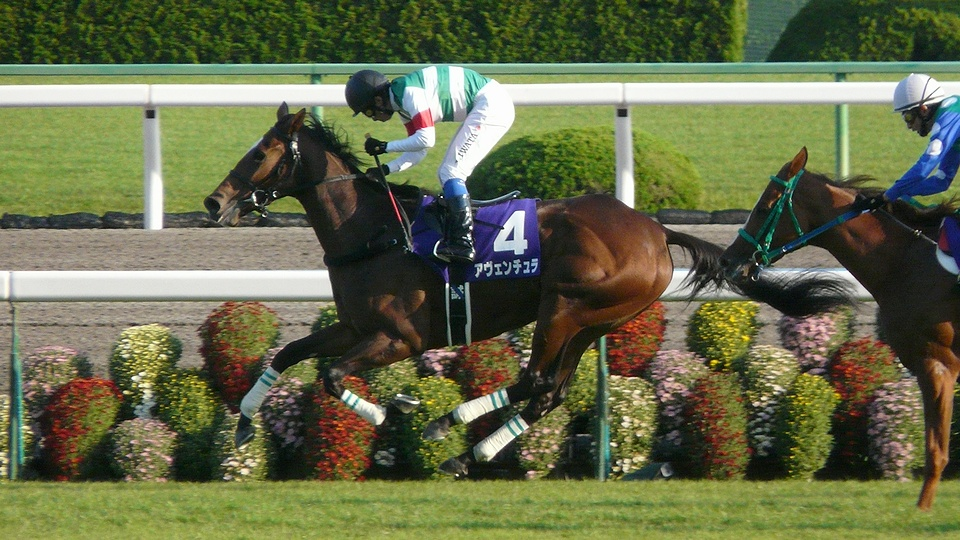 Aventura20111016(1)